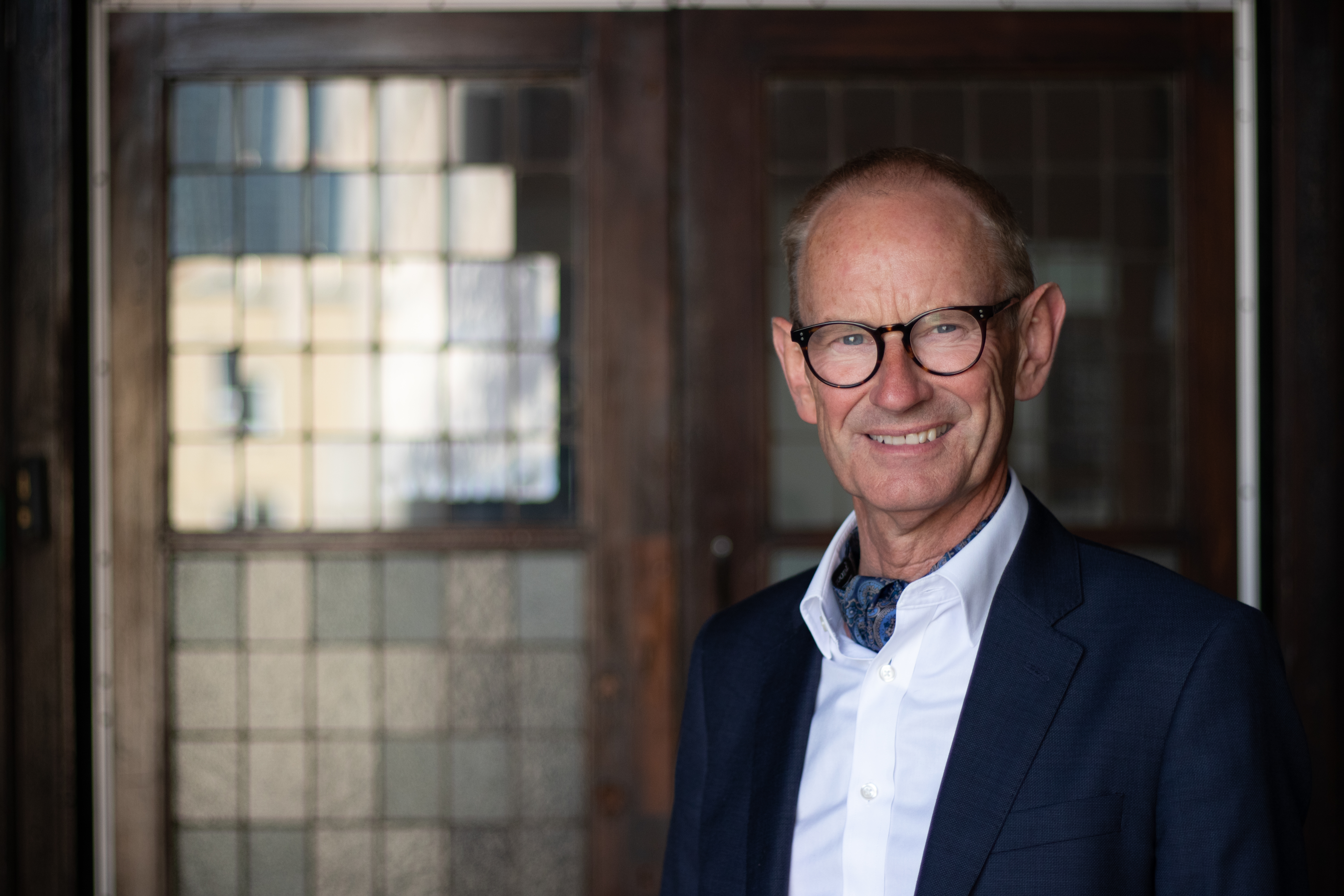 Updated photo of Ian Norman